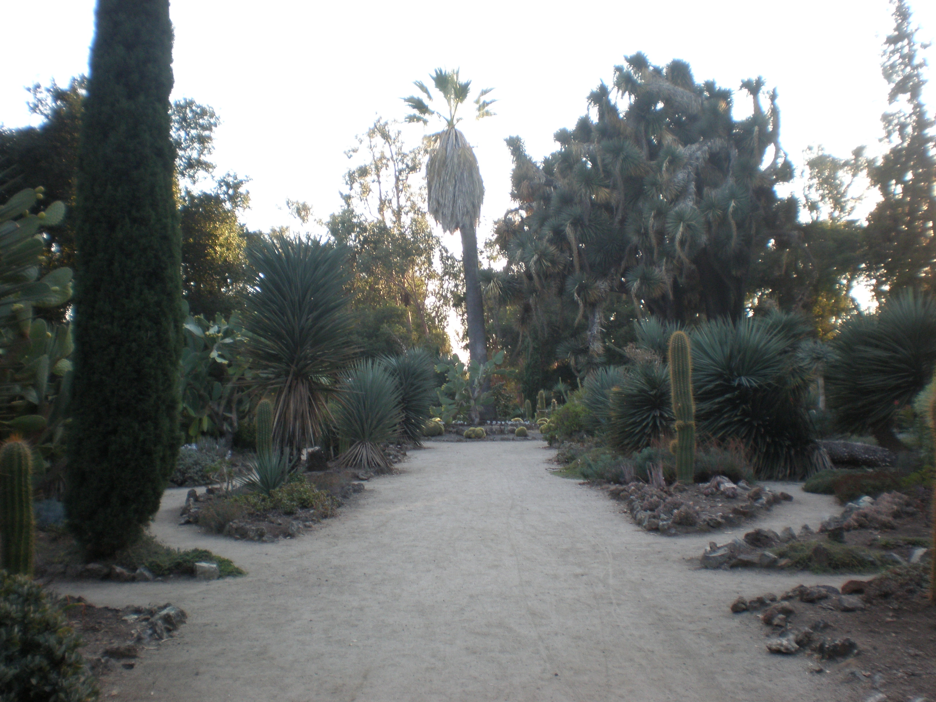 A section of the Arizona Cactus Garden on the Stanford University campus in Stanford, California.